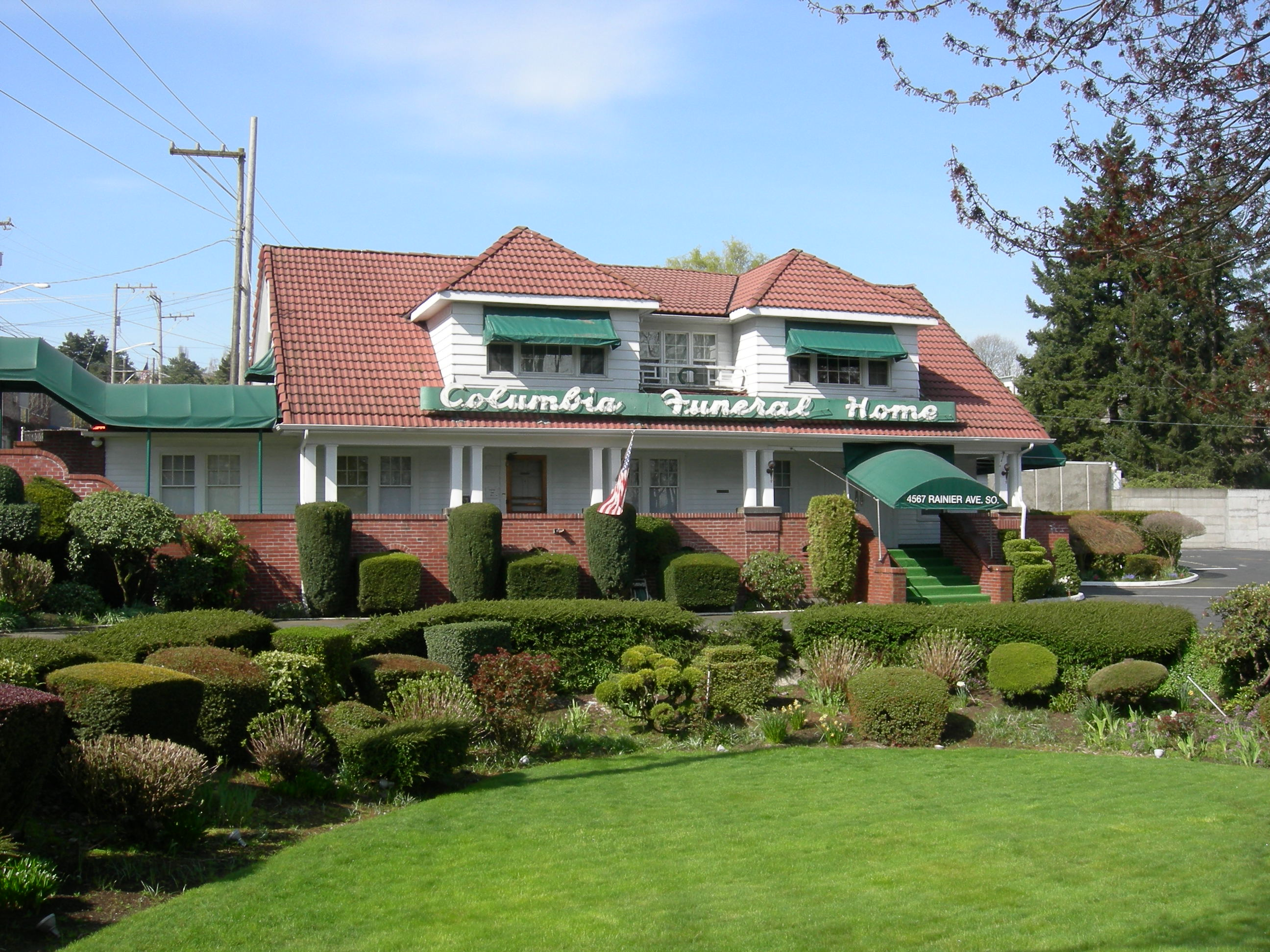 The Columbia Funeral Home, immediately north of the official Columbia City historic district, Columbia City, Seattle, Washington. Built in 1906 as a family home, enlarged 1907, and converted to a funeral home in 1917. More about this building can be found at